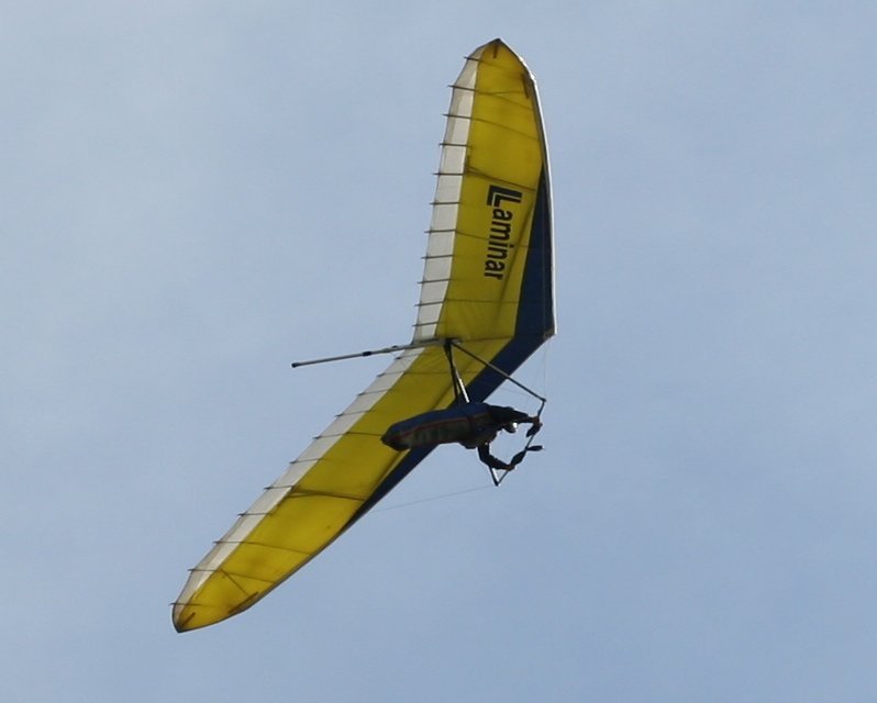 Photographed by and copyright of (c) David Corby (User:Miskatonic, uploader) 2006